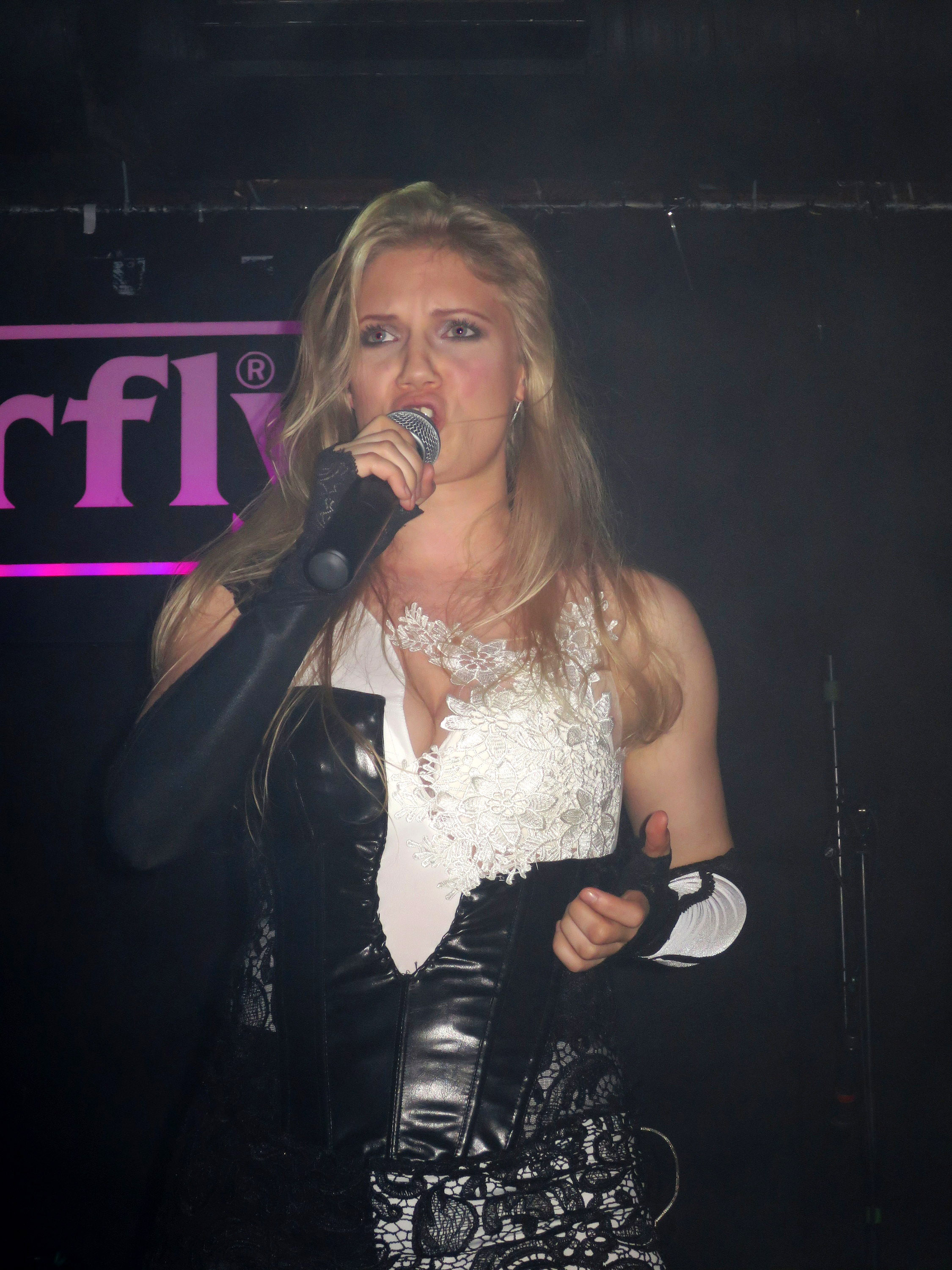 Elina Siirala performing in London with EnkElination